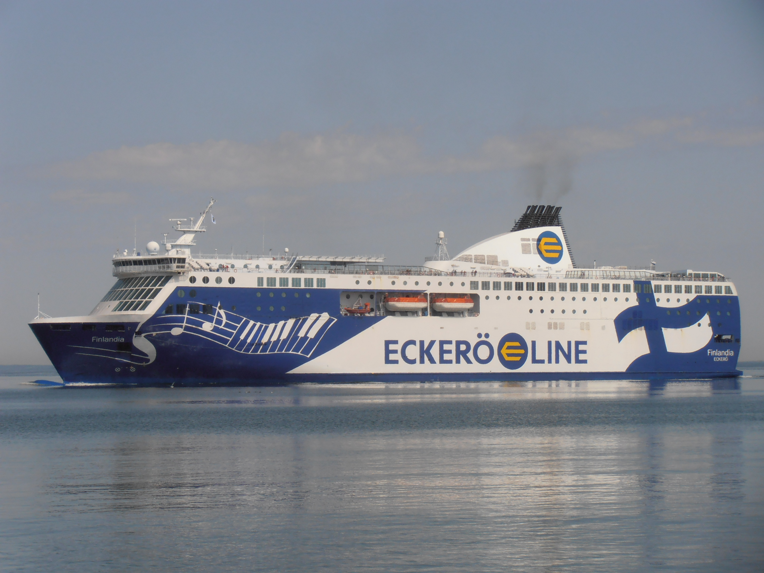 Finlandia arriving in Tallinn 3 June 2013